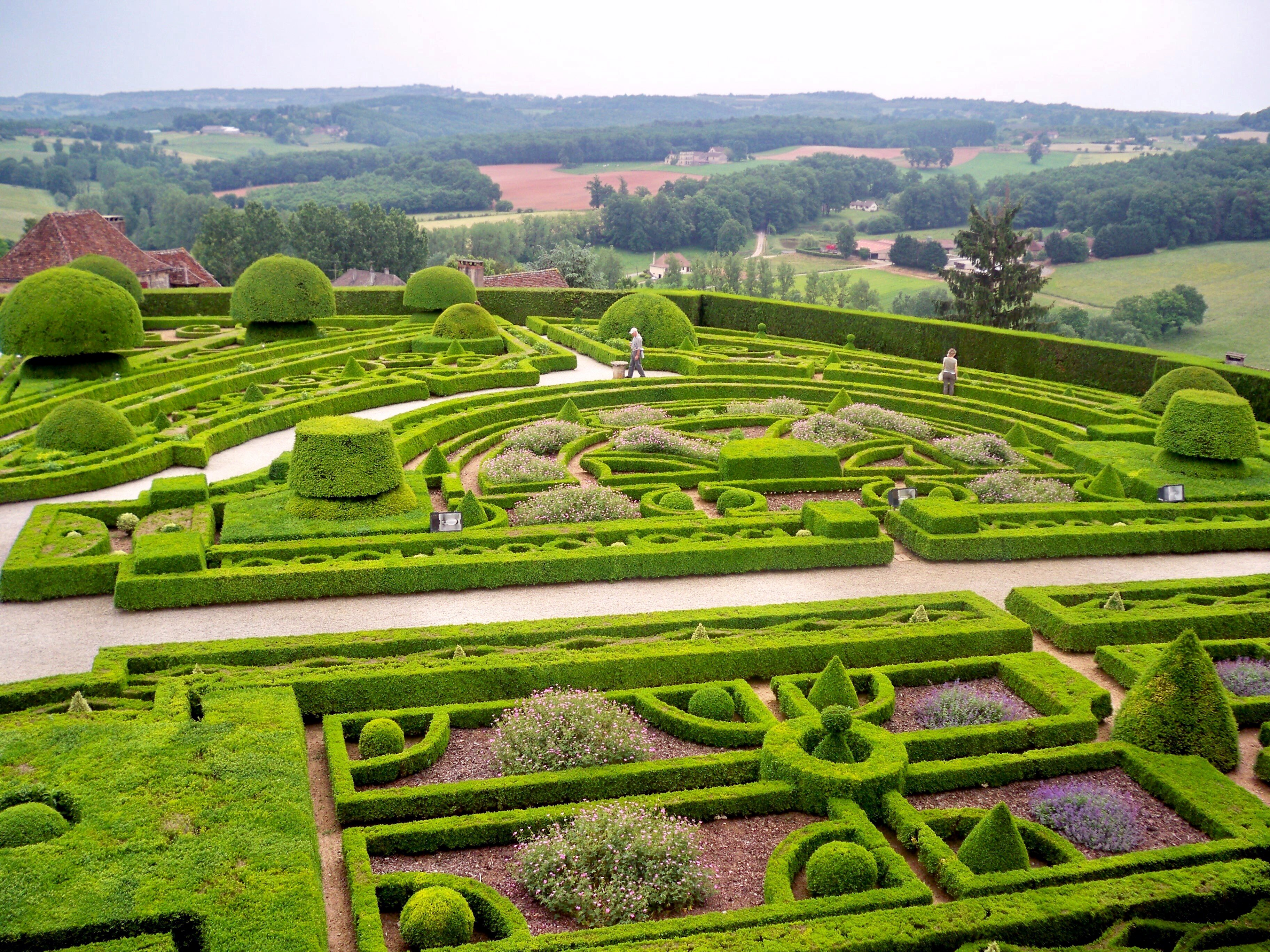 The beautiful gardens of the Château de Hautefort